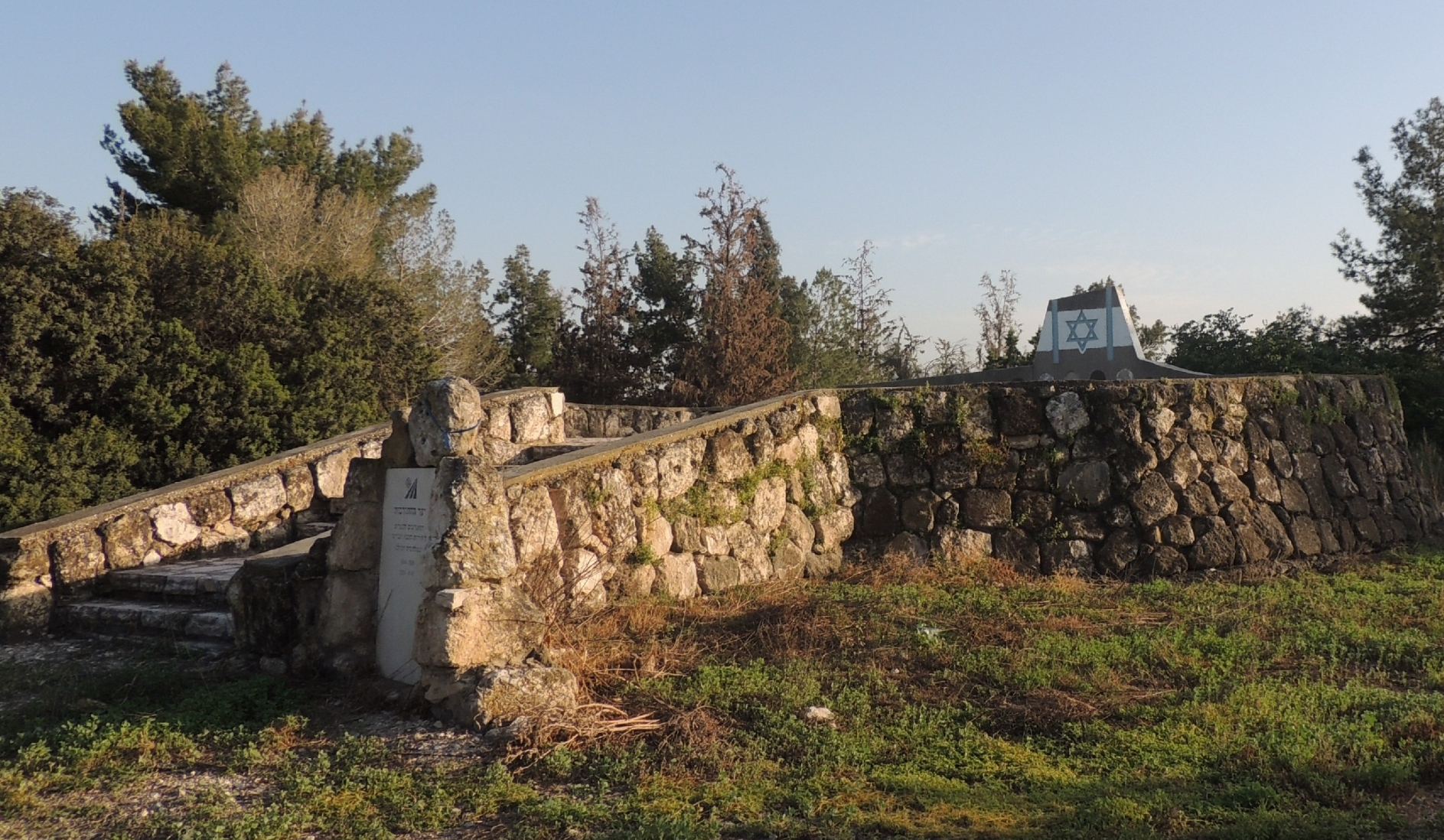 The Jewish Brigade memorial in Ayalon forest near Latrun, Israel